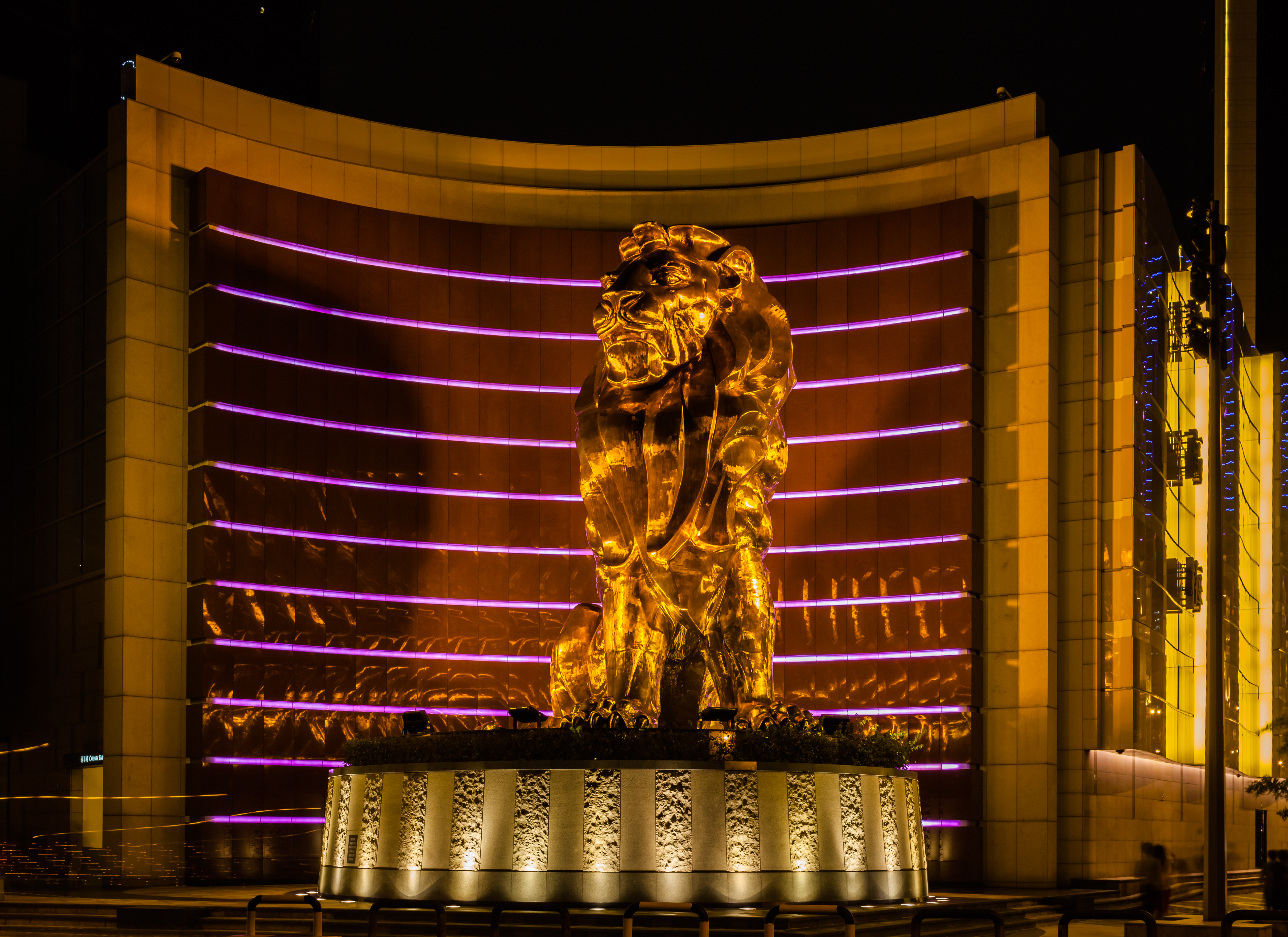 MGM Grand in Macau